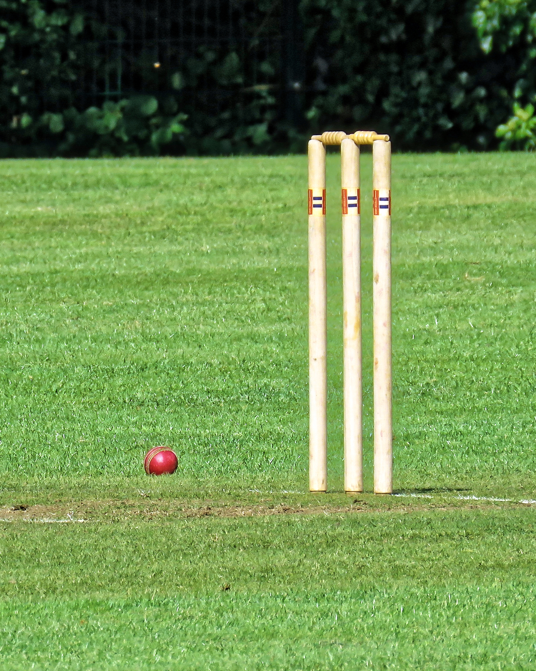 A cricket ball and wicket at Takeley Cricket Club ground in Essex, England.Camera: Canon PowerShot SX60 HSSoftware: File lens-corrected, optimized, perhaps cropped, with DxO OpticsPro 11 Elite, and likely further optimized with Adobe Photoshop CS2.